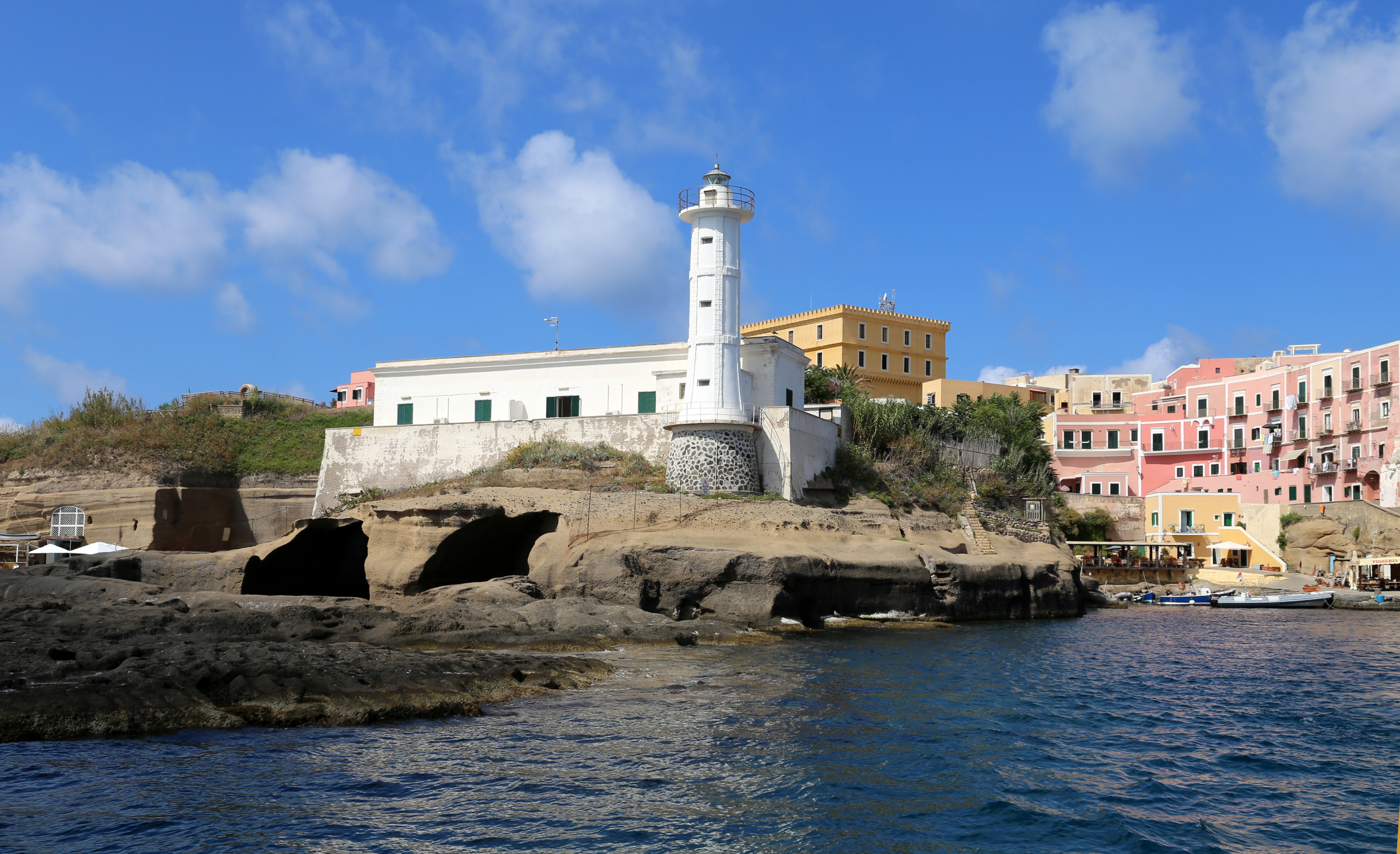 Ventotene